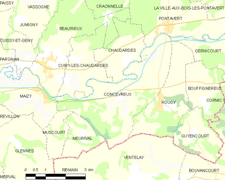 Map of French commune: Concevreux Map commune FR insee code 02208.png